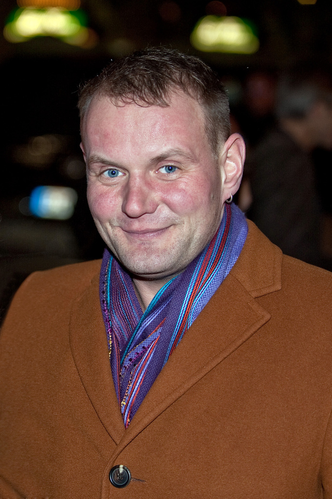 German actor Devid Striesow at the 60th Berlin International Film Festival.